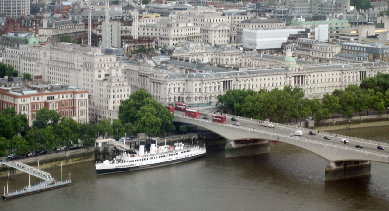 Somerset House and Waterloo Bridge, London